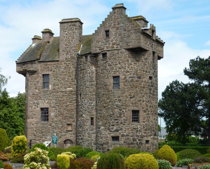 Claypotts Castle near Dundee, Scotland